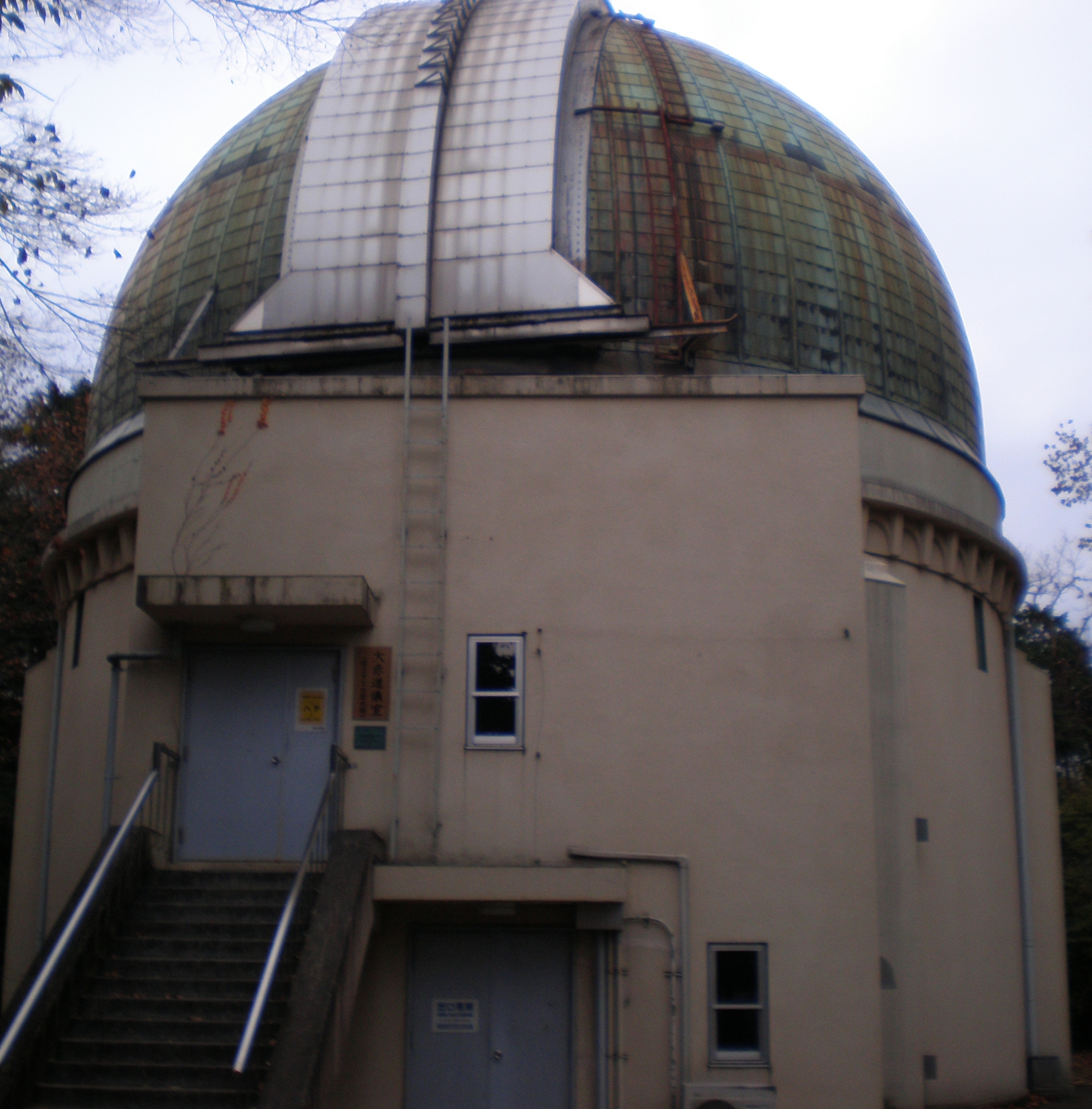 Observatory History Museum at Mitaka Campus, National Astronomical Observatory of Japan.